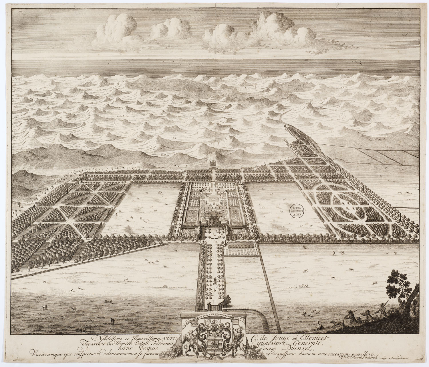 UBL01_P324N034, 1/29/10, 12:07 PM, 8C, 7882x8303 (0+2305), 100%, JULI 2009, 1/160 s, R49.8, G18.5, B18.8